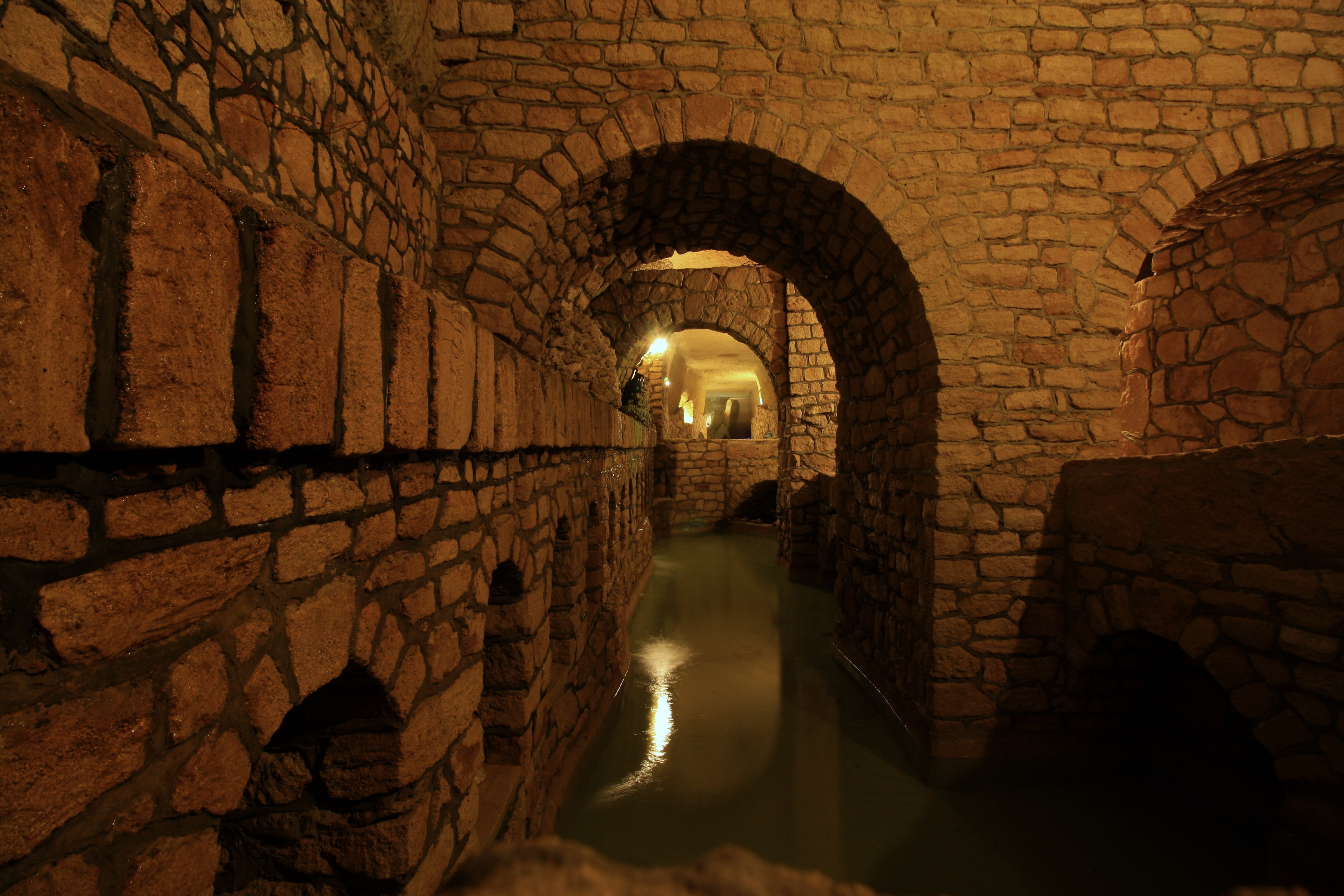 Underground city (1000 years old aqueduct)